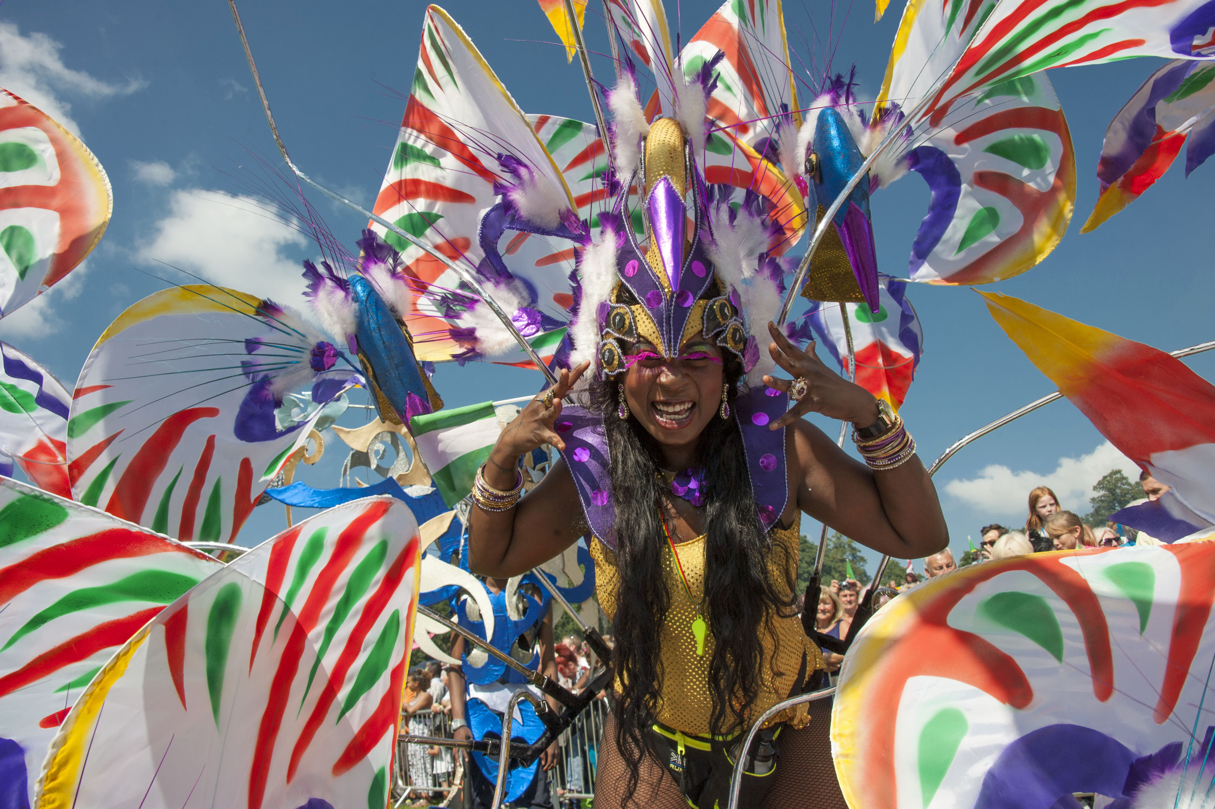 Leeds West Indian Carnival